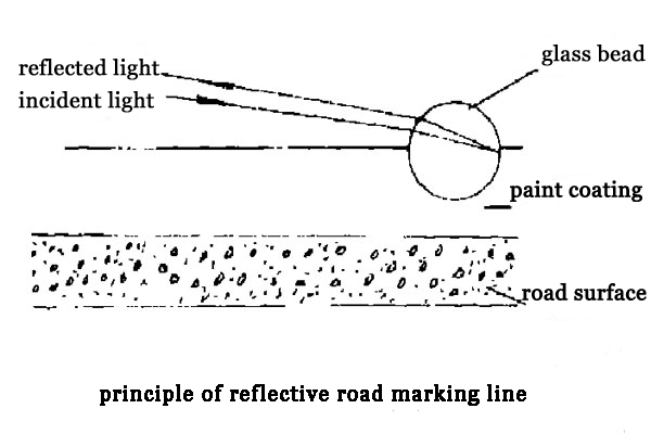 Reflective Principle of Hot-melt Reflective Road Markings